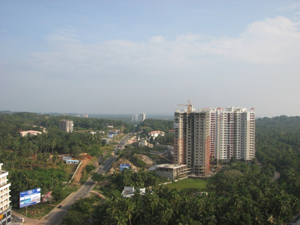 A view of Thiruvananthapuram city towards south side from north of the city at Kazhakoottam, which is approx 16 km away from the CBD.